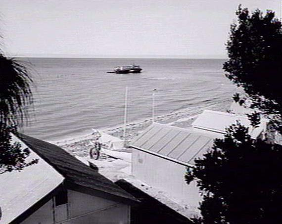 Ozone shipwreck, Indented Head. Created 1955.